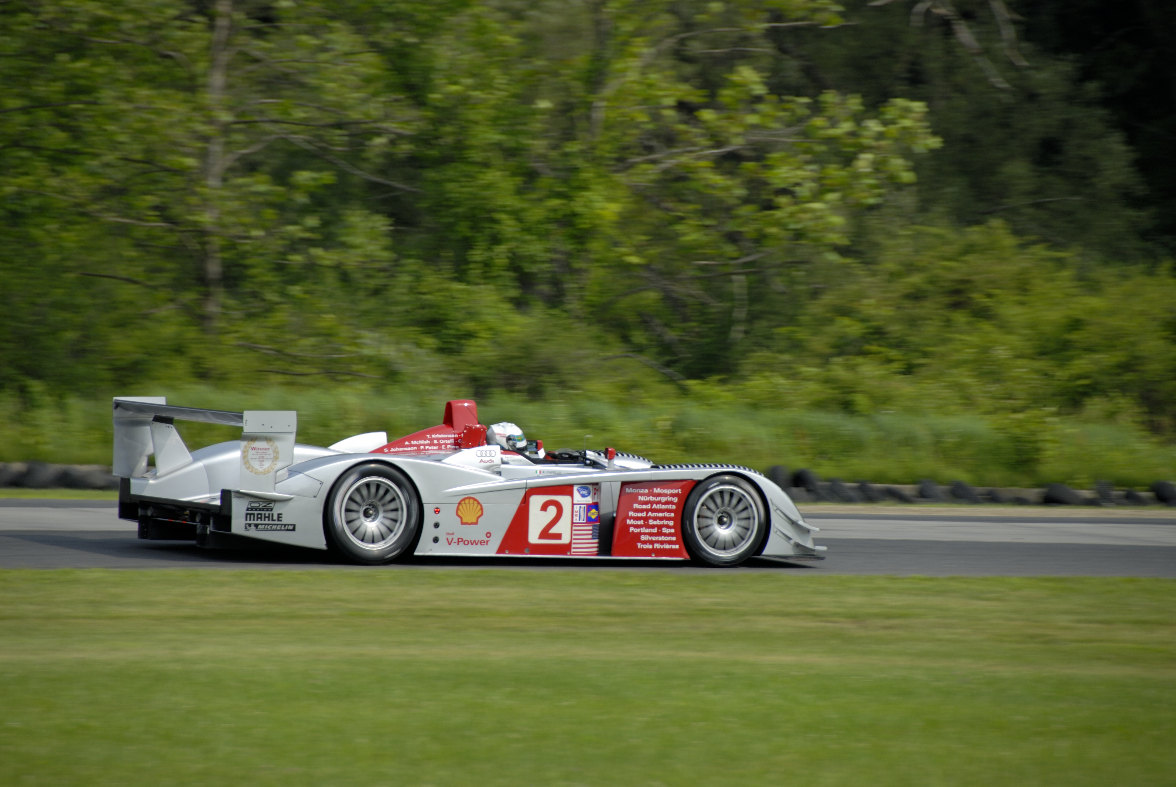 The Audi R8 in its final race